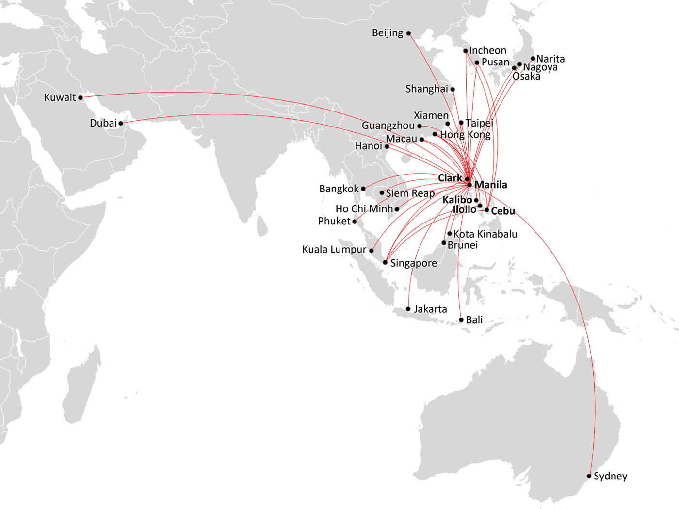 International route map of Cebu Pacific as of July 13, 2014. Based on the flight schedule at the Cebu Pacific website